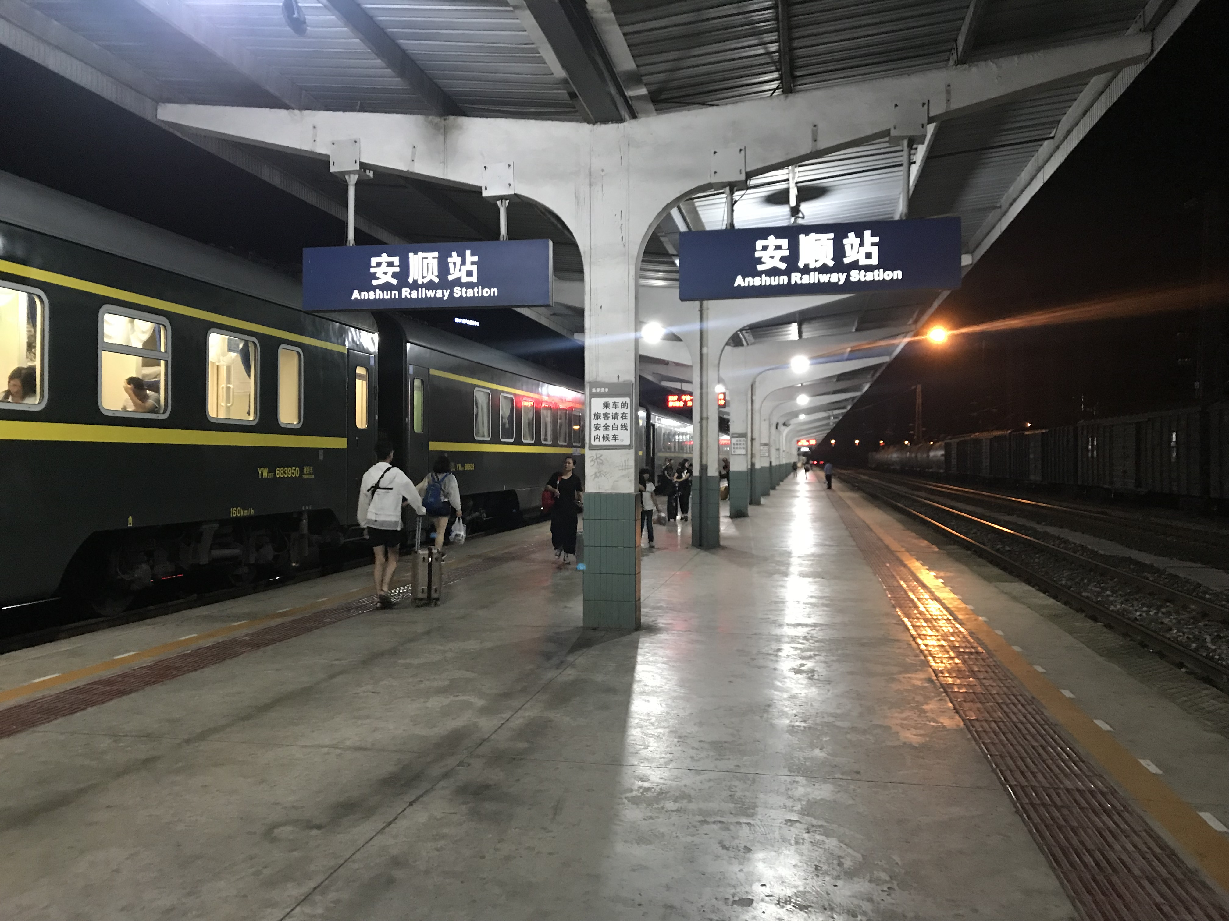 201908 Platform of Anshun Station